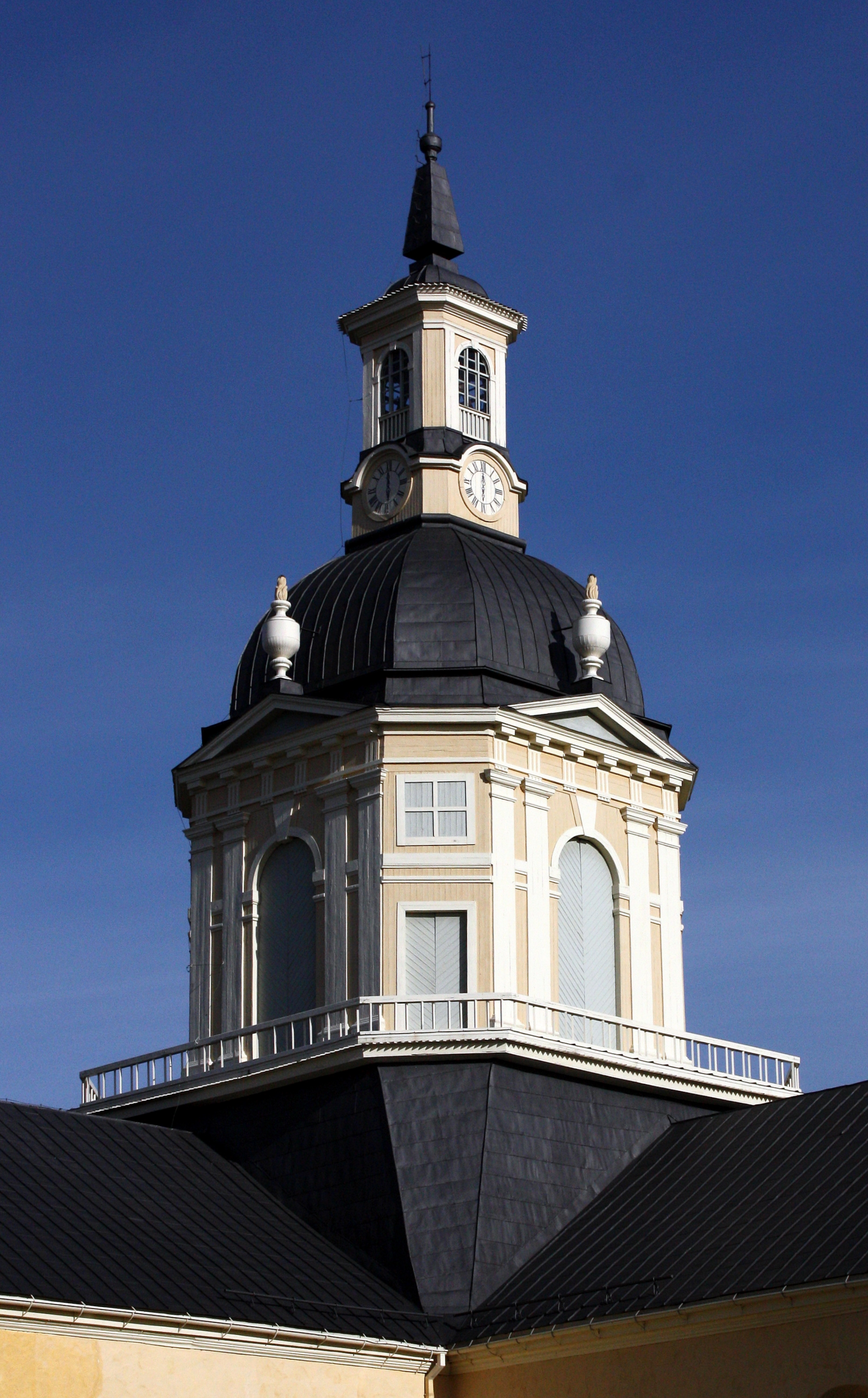 Alatornio church belltower.